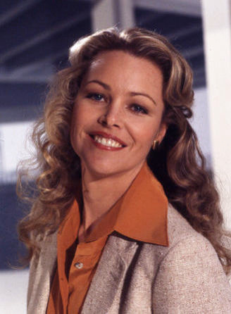 Press transparency by ABC of Michelle Phillips